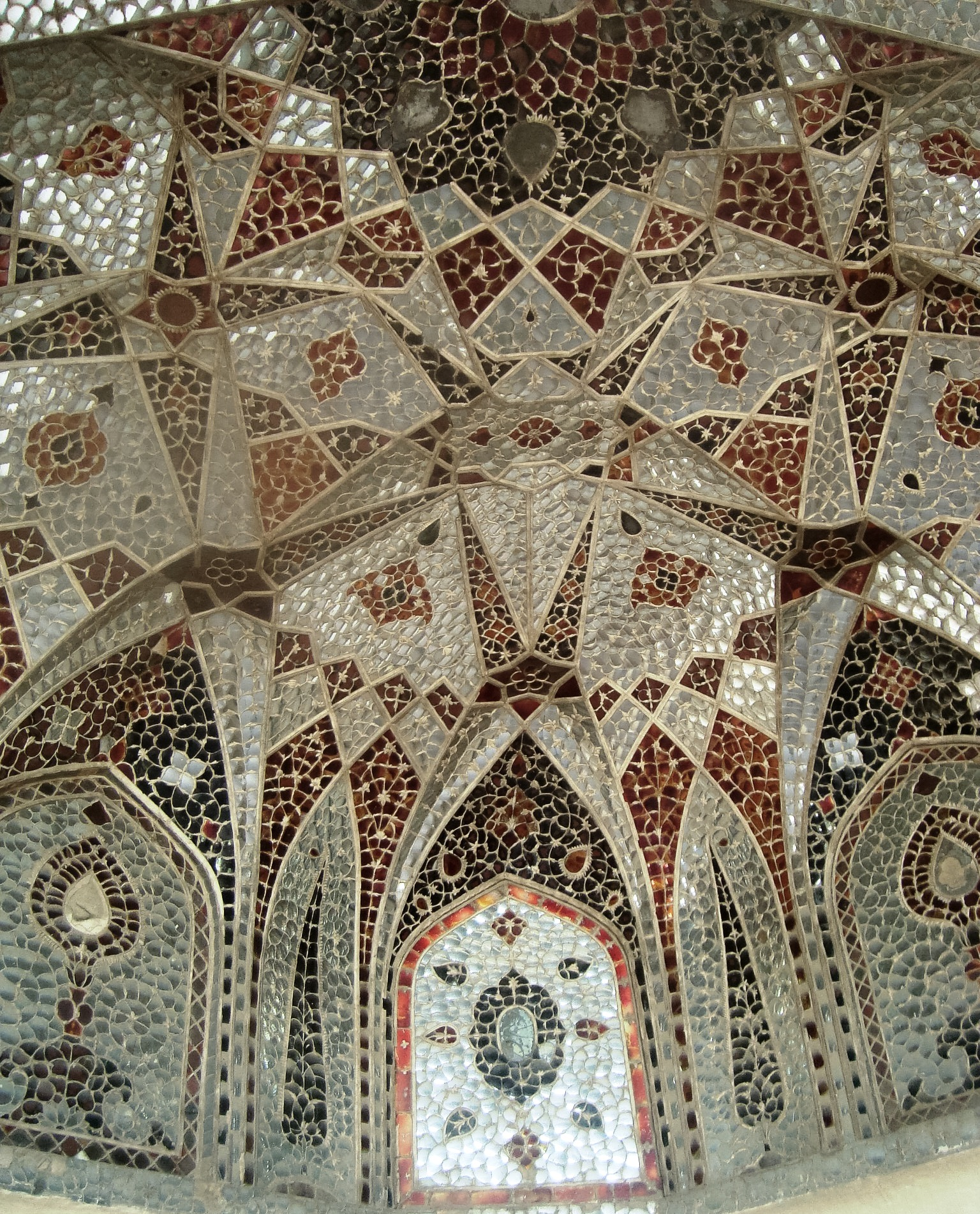 Lahore Fort complex (including Moti Masjid, Naulakha Pavilion, Sheesh Mahal and others) This is a photo of a monument in Pakistan identified as the PB-67